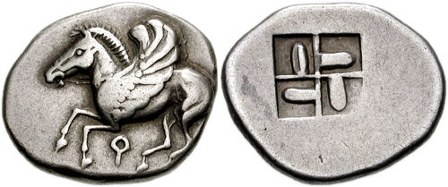 Corinth, 555-515 BC. An early Archaic Stater (23mm, 8.35 gm). Pegasos flying left, koppa below / Quadripartite incuse